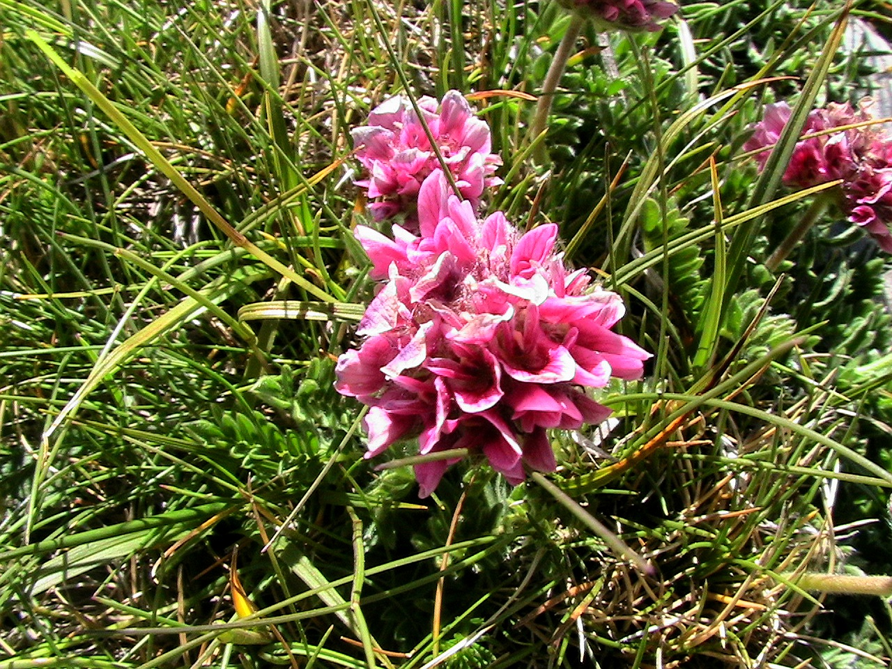 Lychnis alpina. In la Bòfia, la Coma i la Pedra (Solsonès - Catalunya). To 2.090 m. altitude